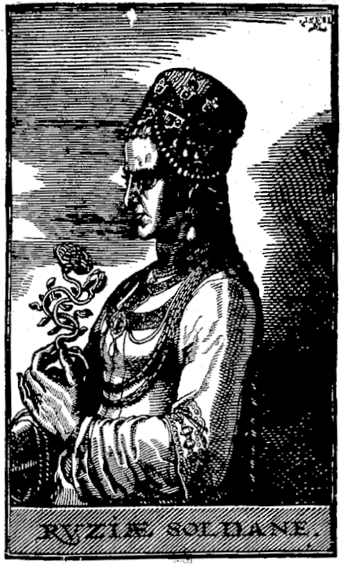 Portrait of Haseki Hürrem Sultan, known as Roxelana, wife of Süleyman I. Nr. 7 of the Register at describes the picture as "Deß Türckischen Sultans Solymanni Gemahl Russia genannt." Russia (Rusziae at the picture) is one of the many names of Roxelana.